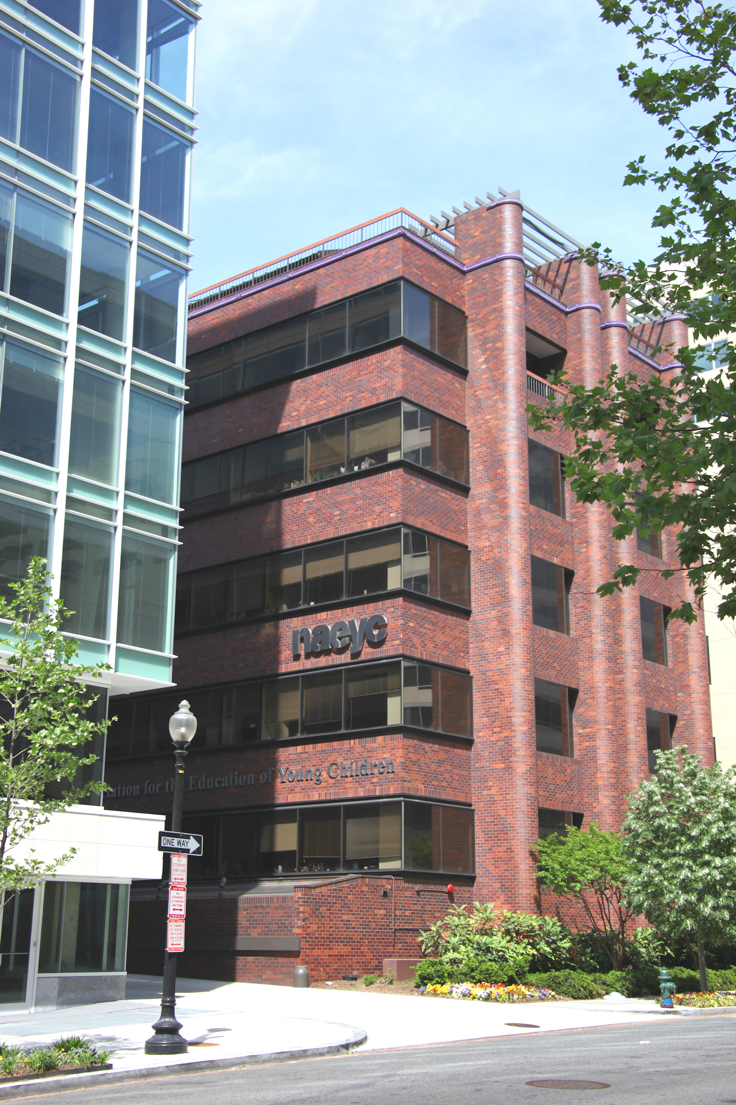 The National Association for the Education of Young Children building at 1313 L Street NW in Washington, D.C. in May 2010.